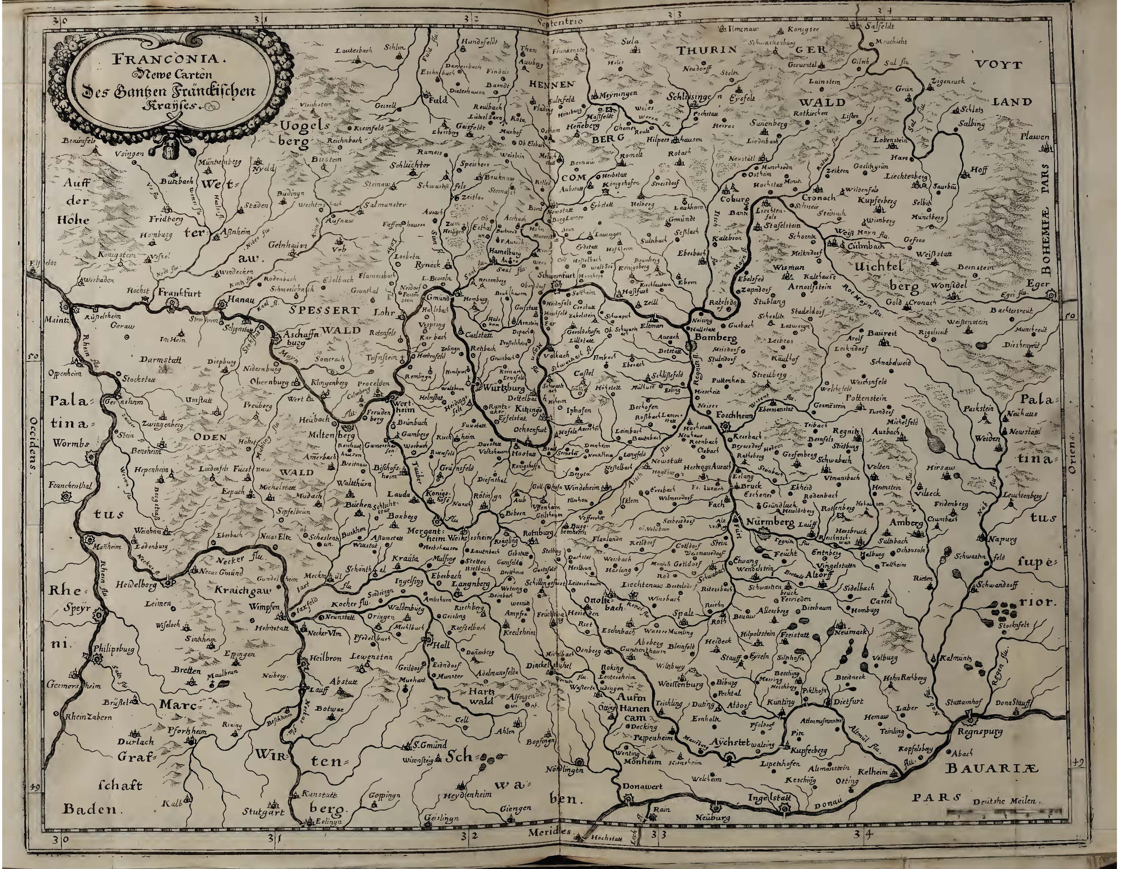 Map of Franconia from Topographia Franconia by Martin Zeiller according to the original engraving by Matthaeus Merian, year 1648